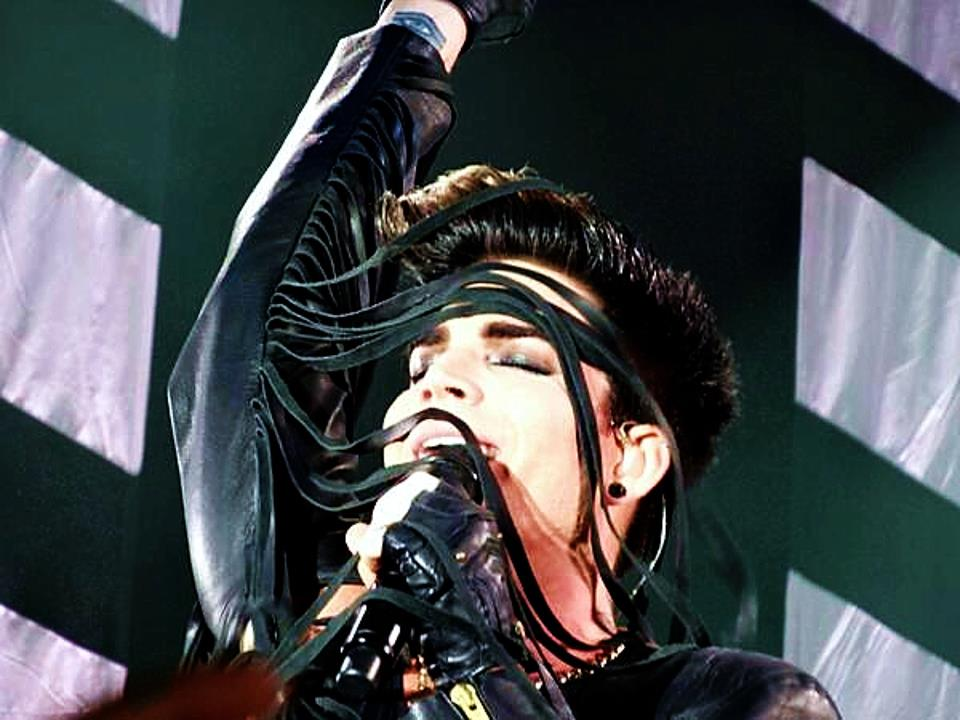 Adam Lambert in Helsinki, Finland for We are Glamily Concert at Hartwall Arena on March 22, 2013